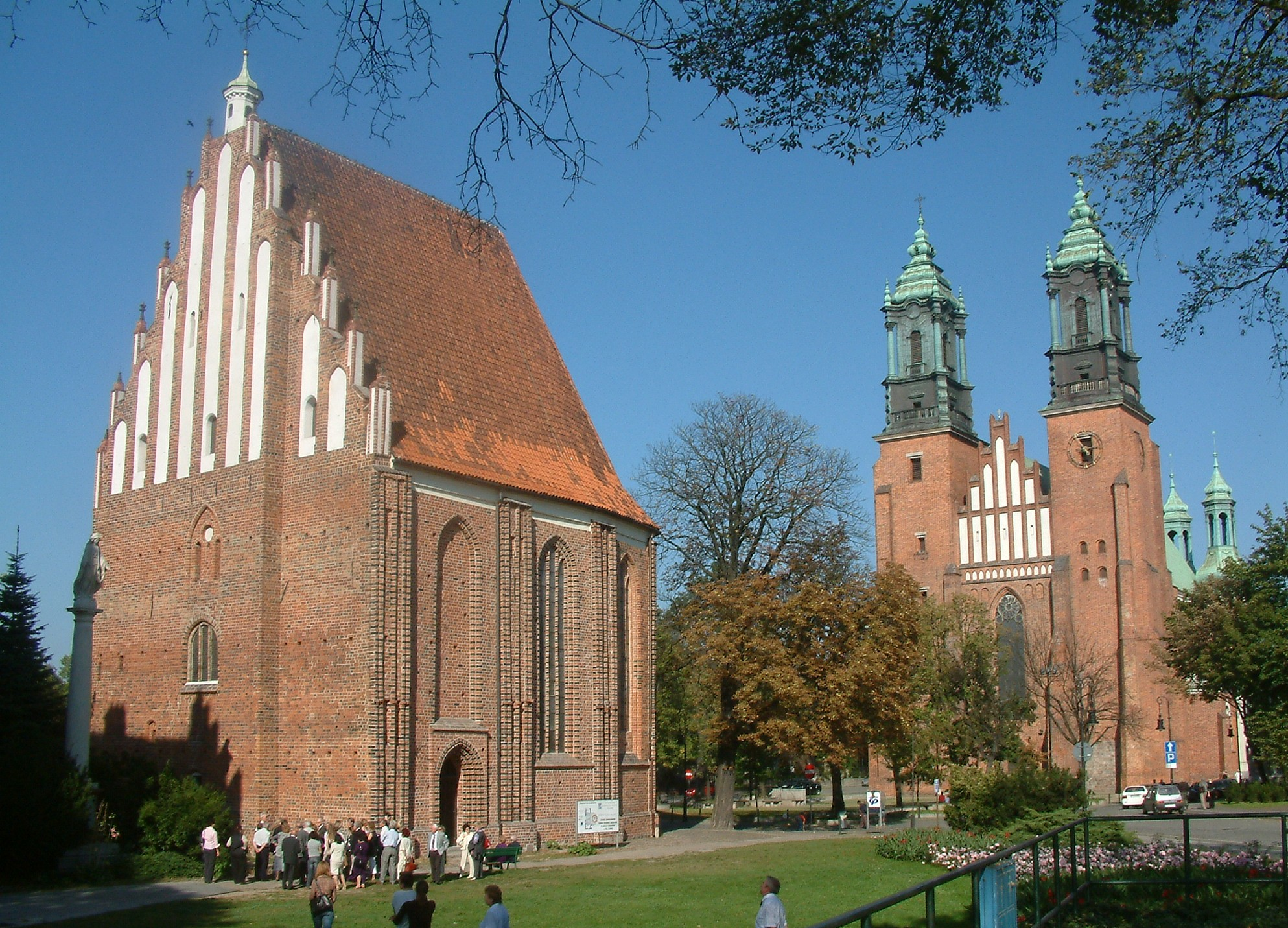 Church of Holly Virgin Mary and Archicatedral Basilica in Poznań